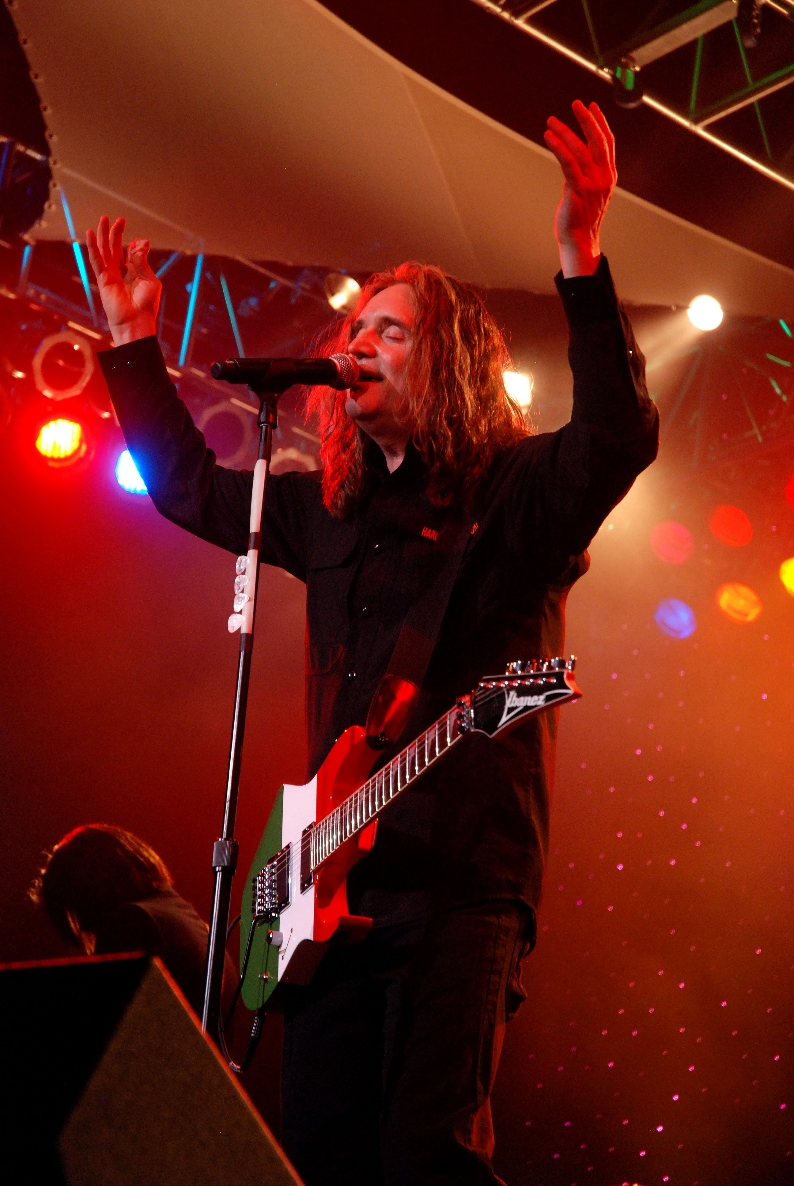 Fran Cosmo Performing at the Cannery Casino